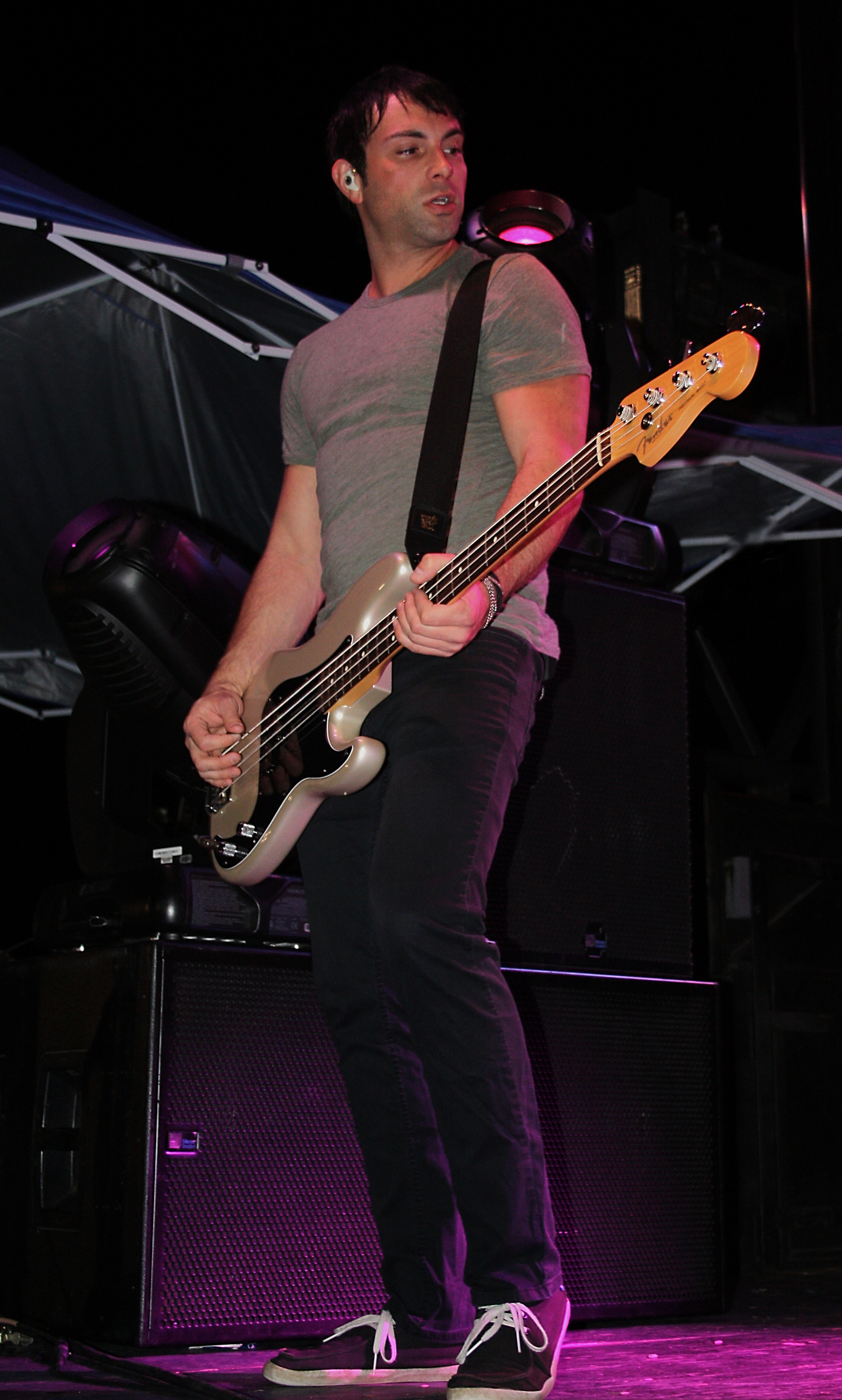 Picture of Josh Portman 8/25/12